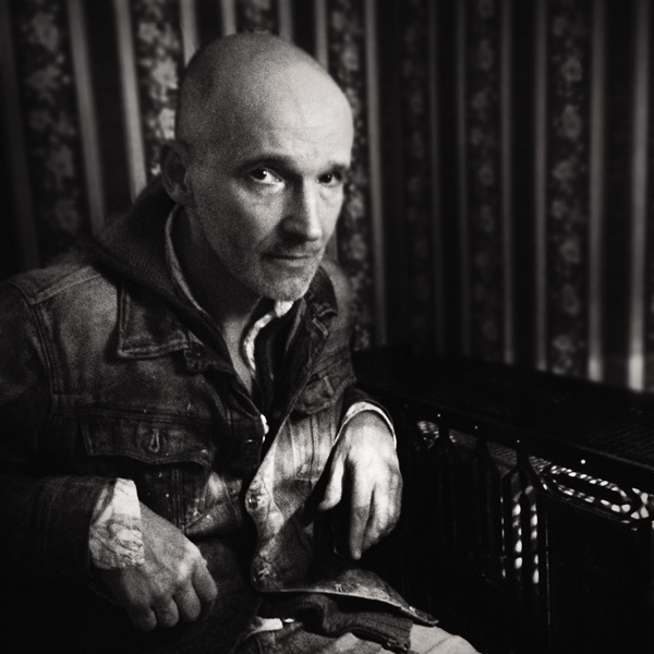 Sándor Zsótér, Hungarian actor, theatre director